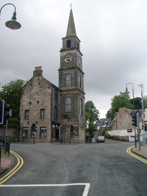 Kirkintilloch Cross Clock Former church, now converted into a shop.